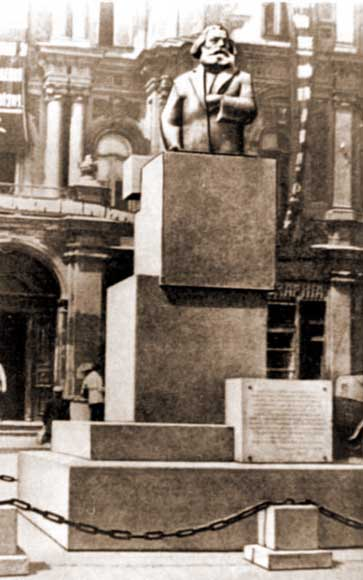 A photo of a monument to Karl Marx in Kyiv. The monument was demolished in mid-1930s